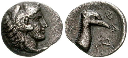 AR Obol, Stymphalia, 370-350 BC depicting Heracles on obverse, Stymphalian bird on reverse.